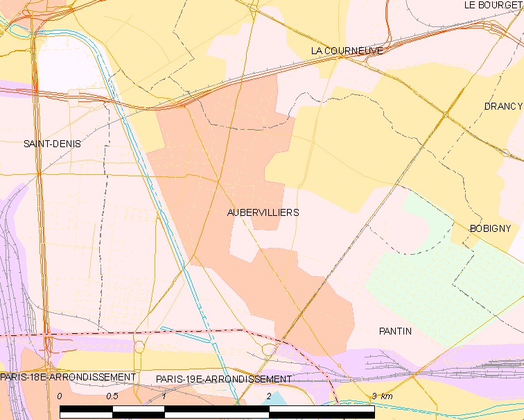 Map of French municipality Aubervilliers